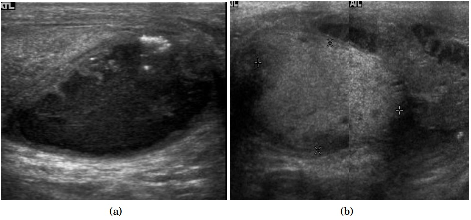 Scrotal ultrasonography of a tuberculous epididymo-orchitis